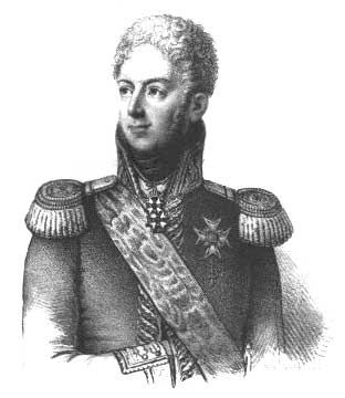 Swedish general Johan August Sandels